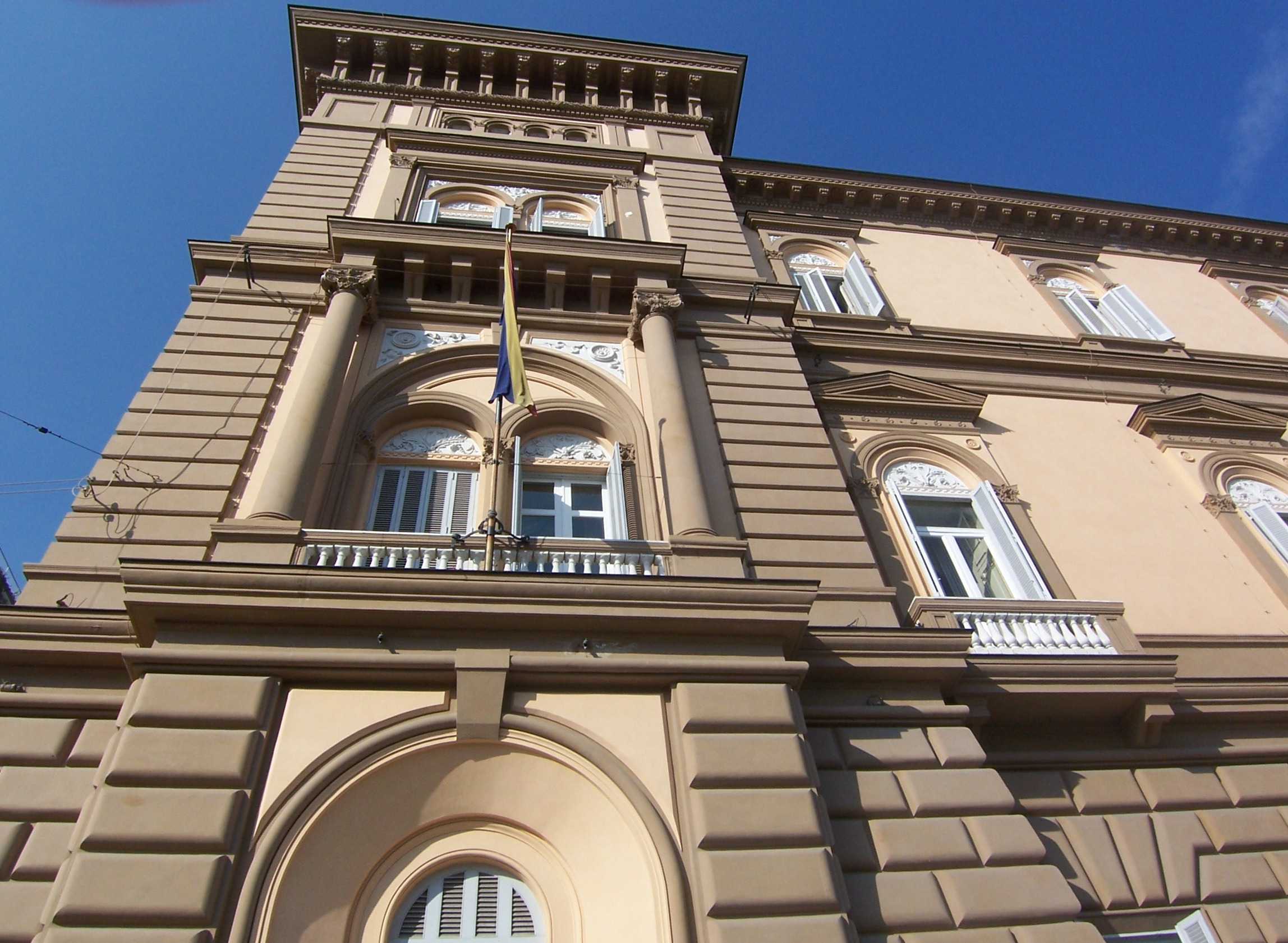 Palazzo_Caravita_a_Chiaia